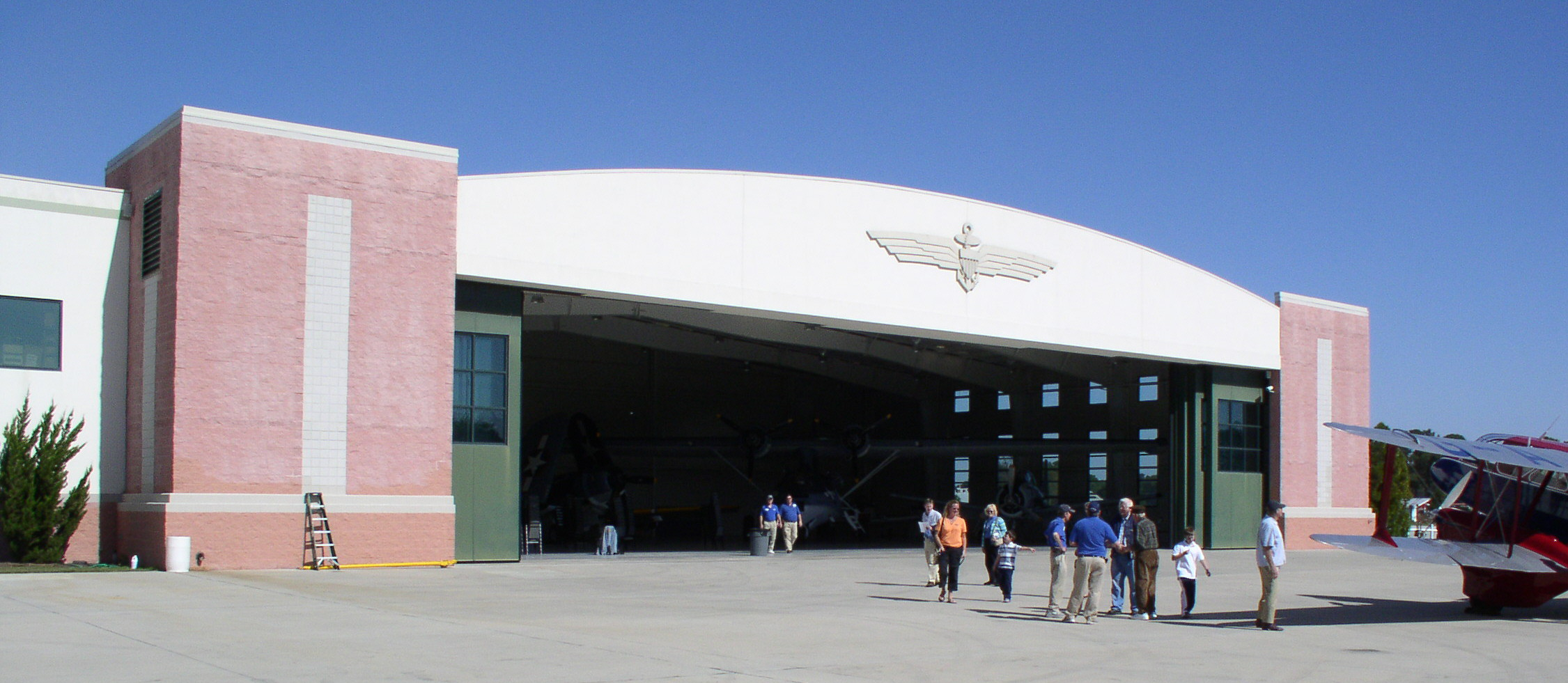 US Navy hangar at the Military Aviation Museum